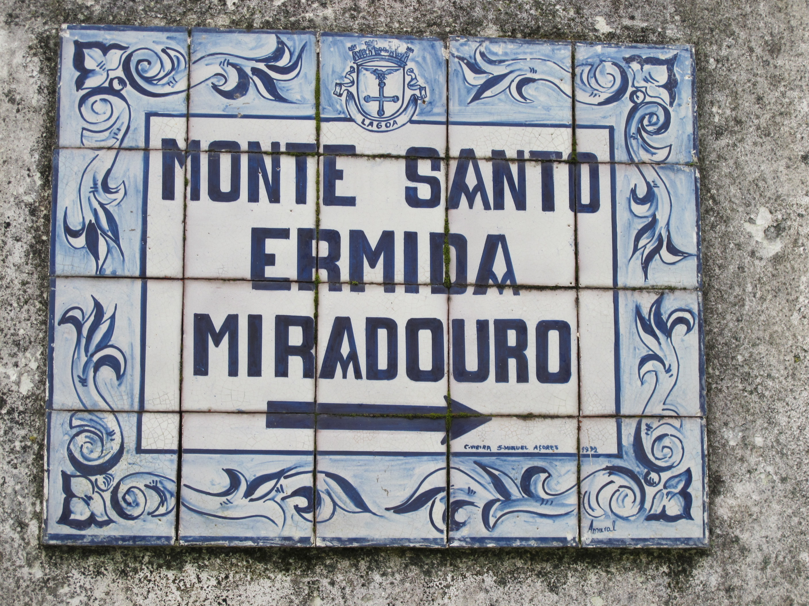 Waysign to the Monte Santo Ermida Miradouro